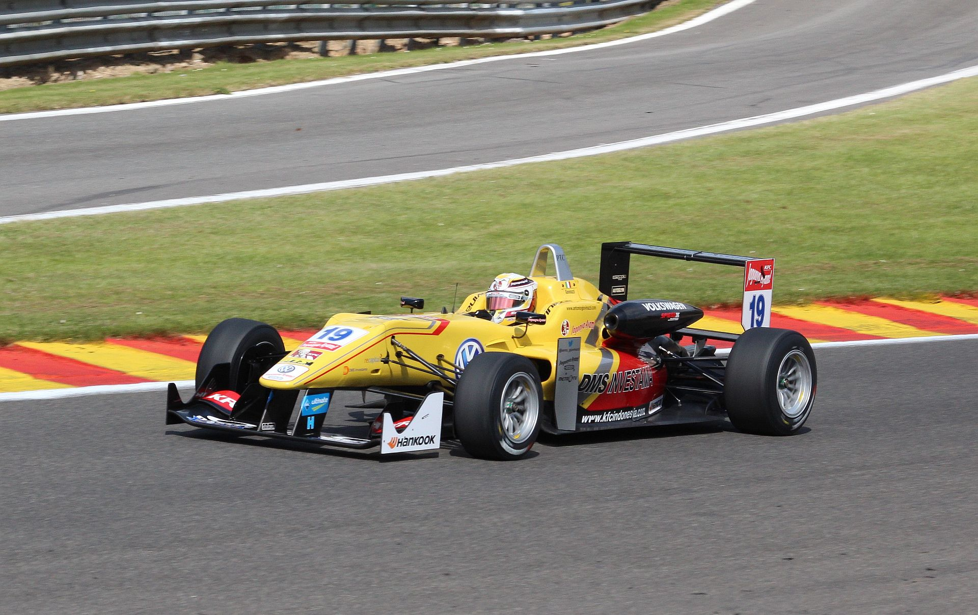 Antonio Giovinazzi at Spa in 2014, European Formula 3 Championship